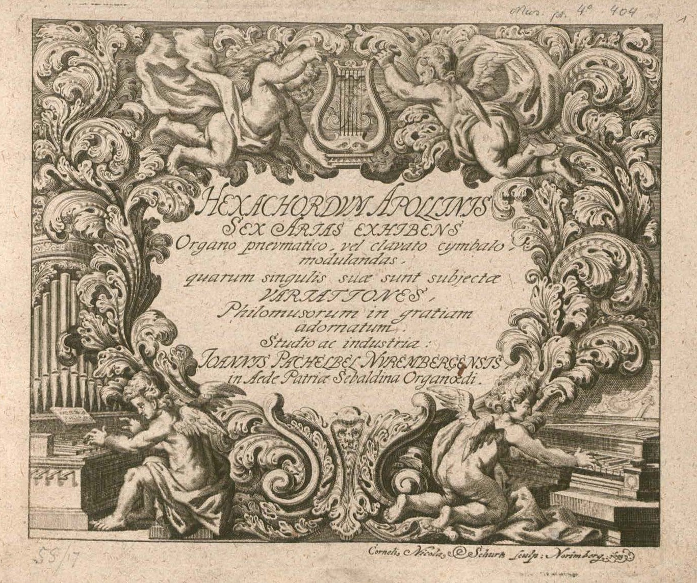 Facsimile of the frontispiece of Hexachordum Apollinis, a keyboard music collection by Johann Pachelbel (1653-1706). The collection was published in 1699.